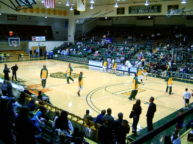 Interior of War Memorial Gym, University of San Francisco. Taken before USF v. Sonoma State game, November 12, 2005 Category:University of San Francisco